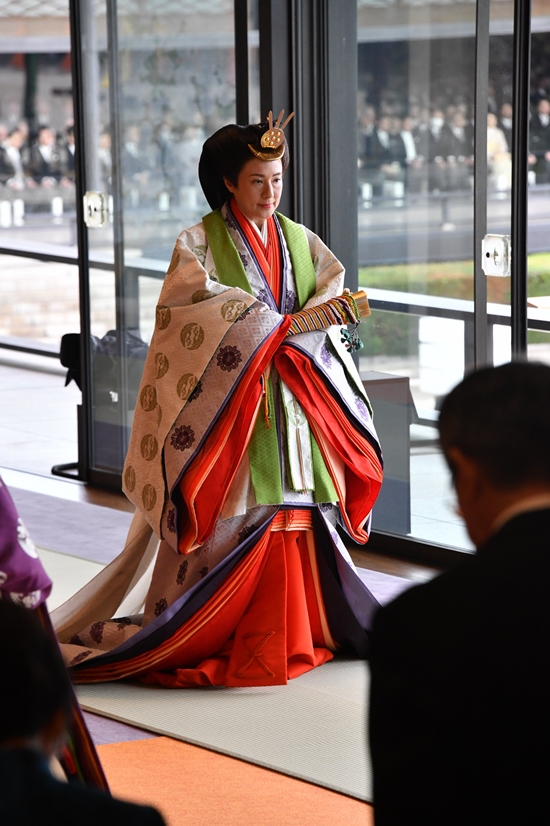 In 2019, Empress Masako wore juni-hitoe (twelve-layered ceremonial kimono) at the enthronement ceremony.